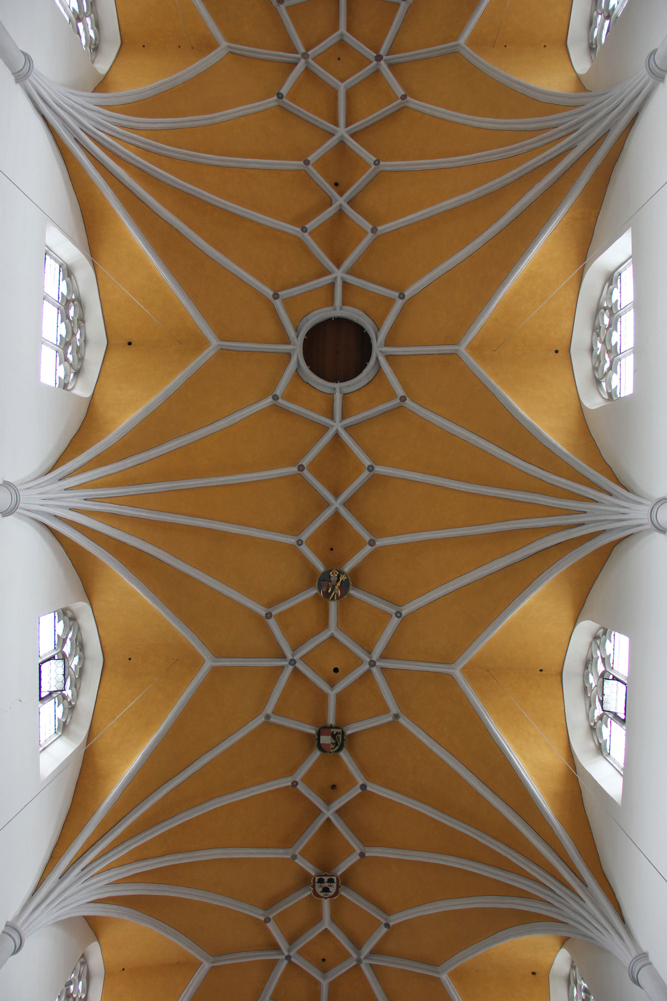 Church of St. Jodok Native nameSt. JodokLocationLandshut, Lower Bavaria, GermanyCoordinates48° 32′ 10.8″ N, 12° 09′ 27.6″ E